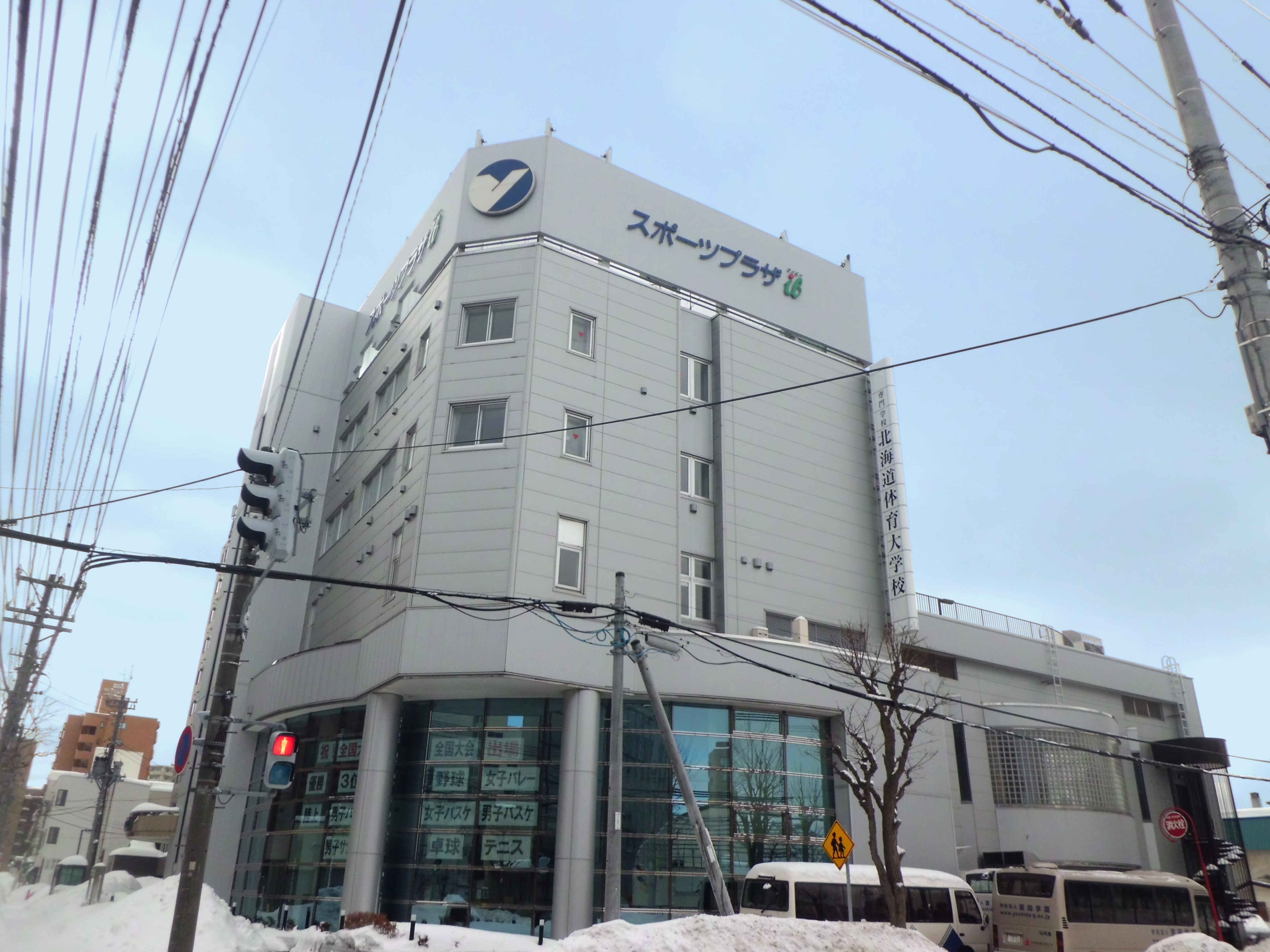 Hokkaido Sports College